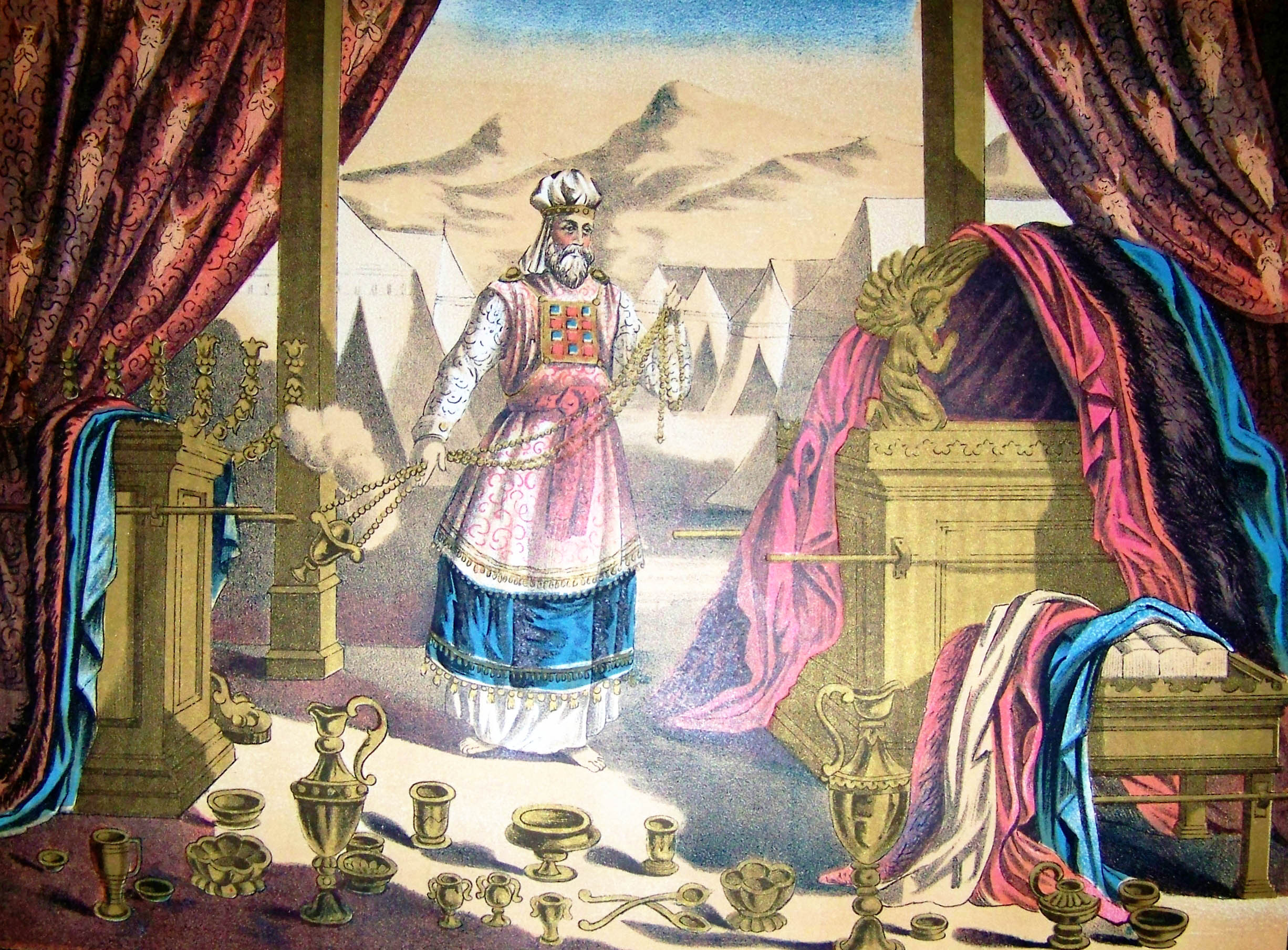 Furniture of the Biblical Tabernacle, illustration from the 1890 Holman Bible